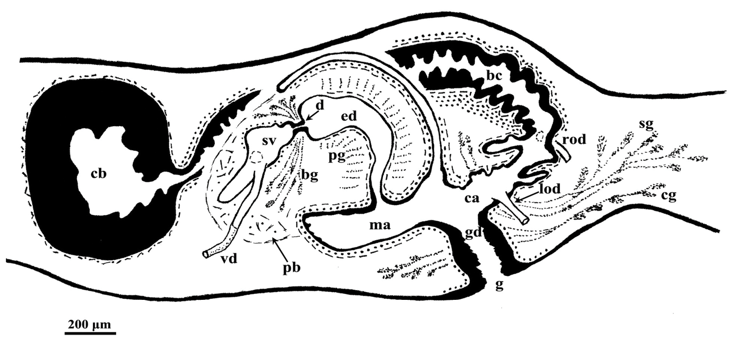 Dugesia superioris. Holotype ZMA V.Pl. 7153.1, sagittal reconstruction of the copulatory apparatus (anterior to the left).